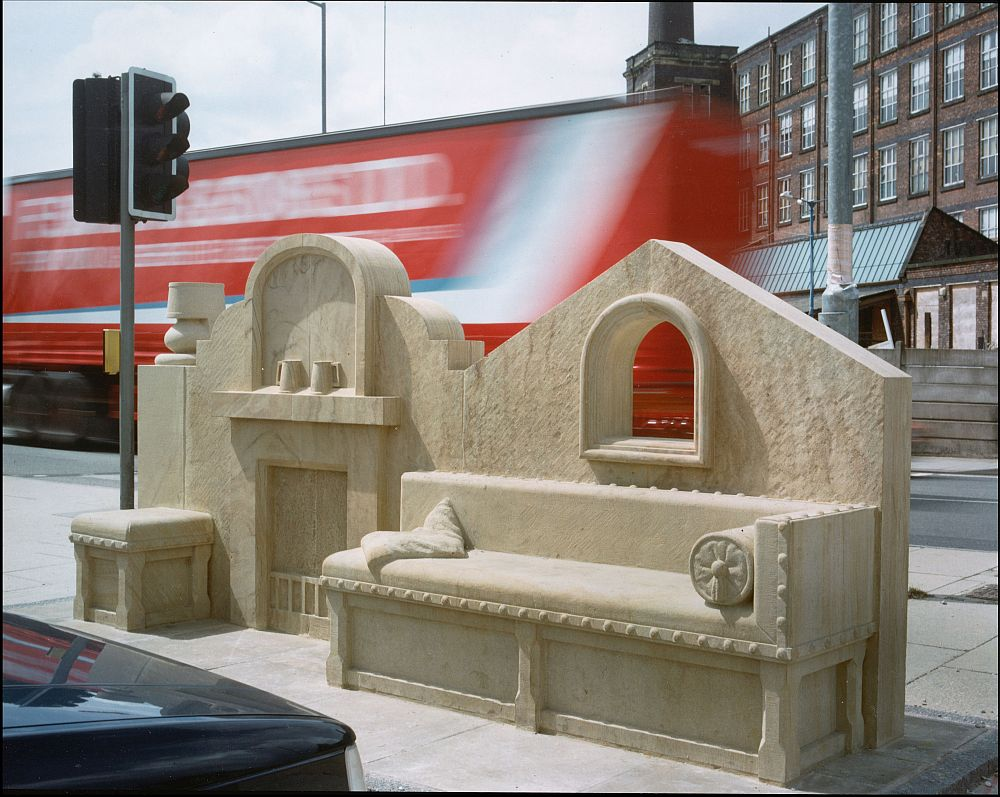 Depiction of pub snug in stone.